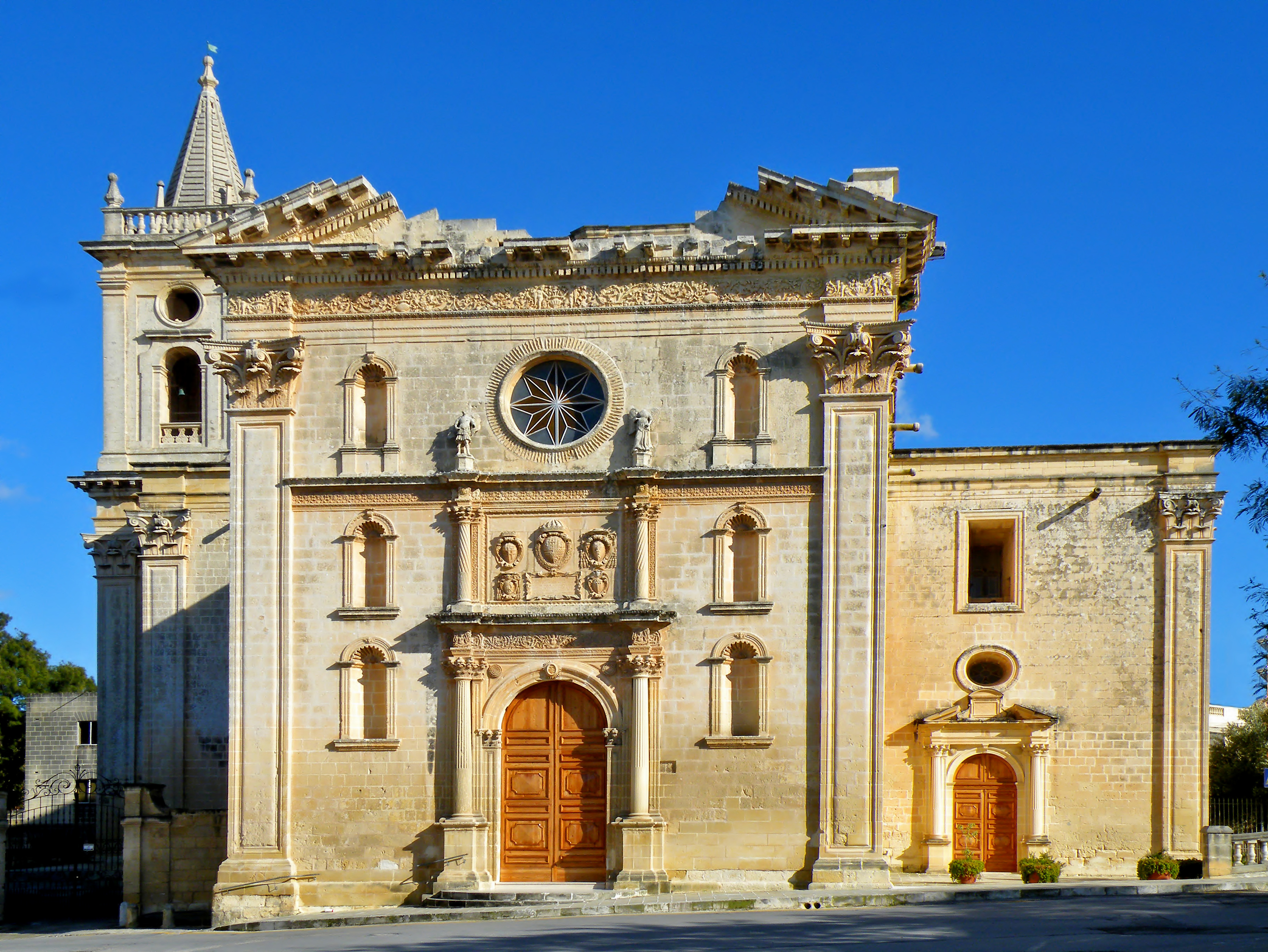 Birkirkara